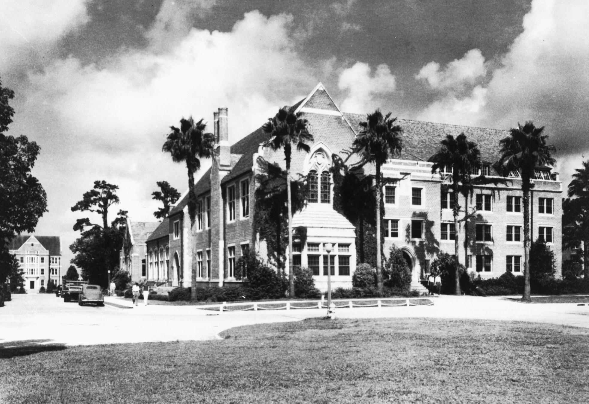 A historic photo of Dauer Hall